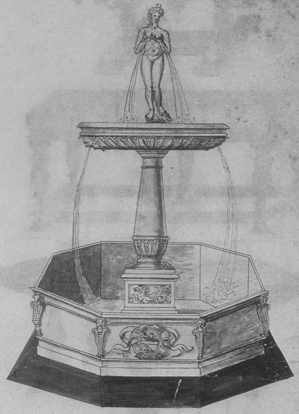 The Diana Fountain, Nonsuch, at the centre of the Privy Garden. Although sometimes identified as Venus, the crescent moon on her head shows that the goddess is Diana. Pen with grey and black wash (1590), artist unknown; from The Red Velvet Book, f.31r.